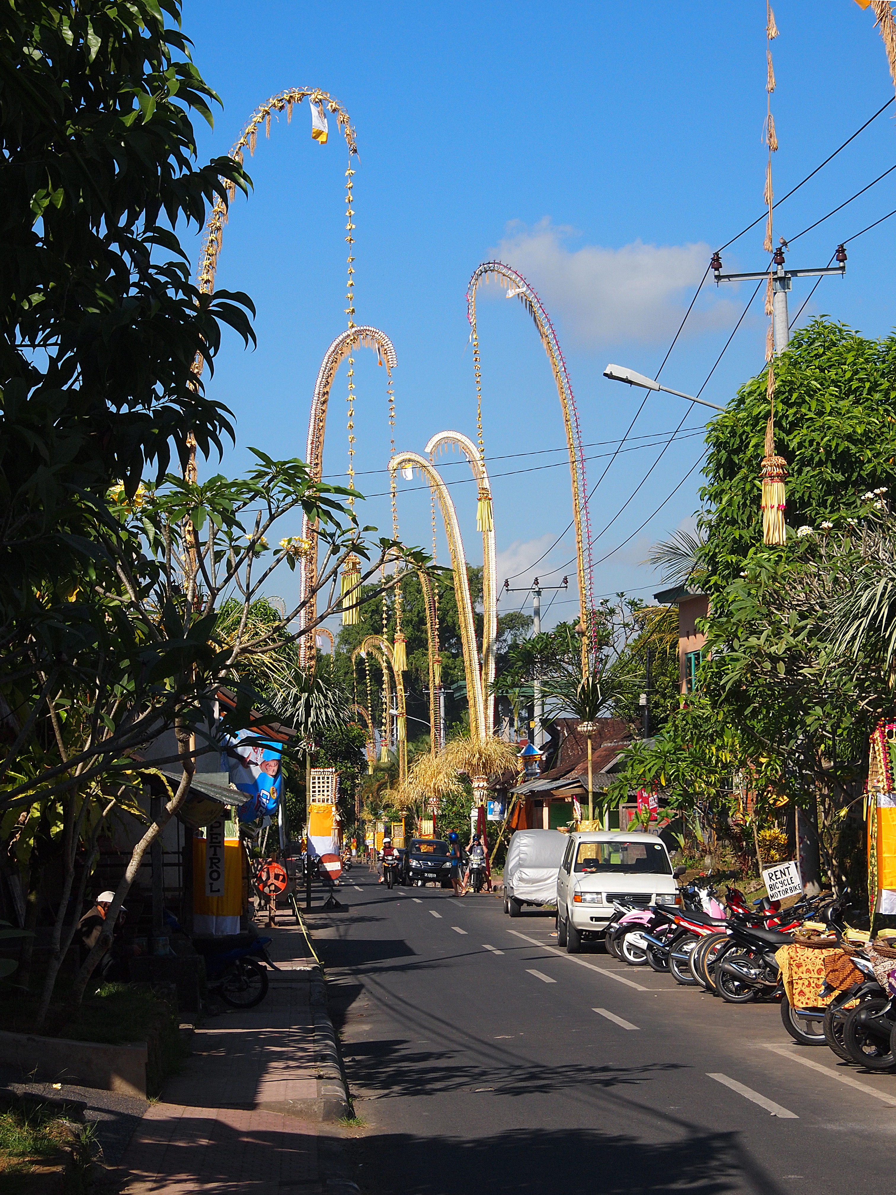 Street decoration in Bali for Galungan celebration